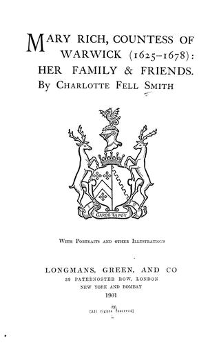 Mary Rich Countess of Warwick, Her Family And Friends Charlotte Fell Smith